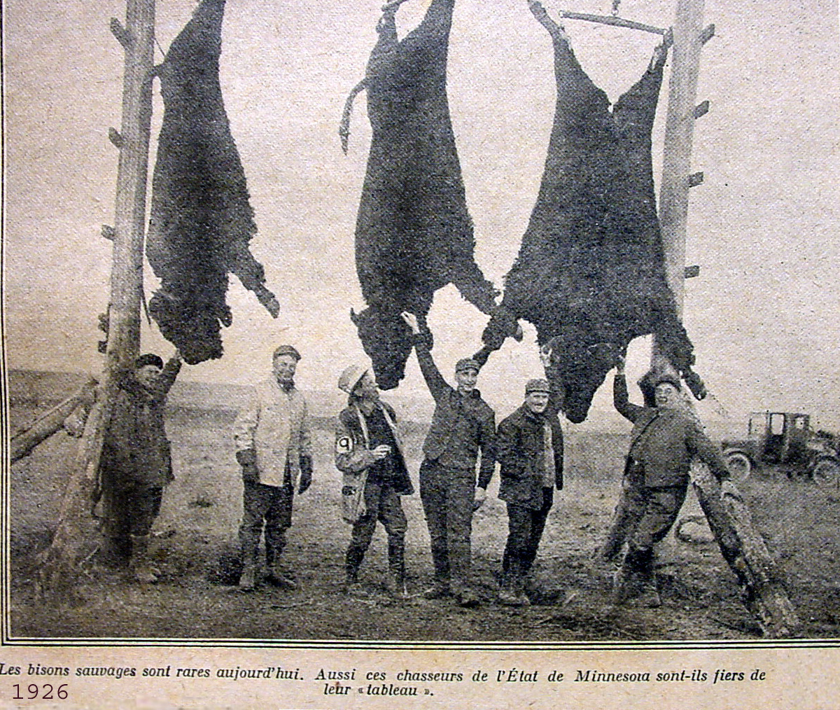 illustration d'un article daté de 1926 those minesota's hunters are proud, because is becomed rared